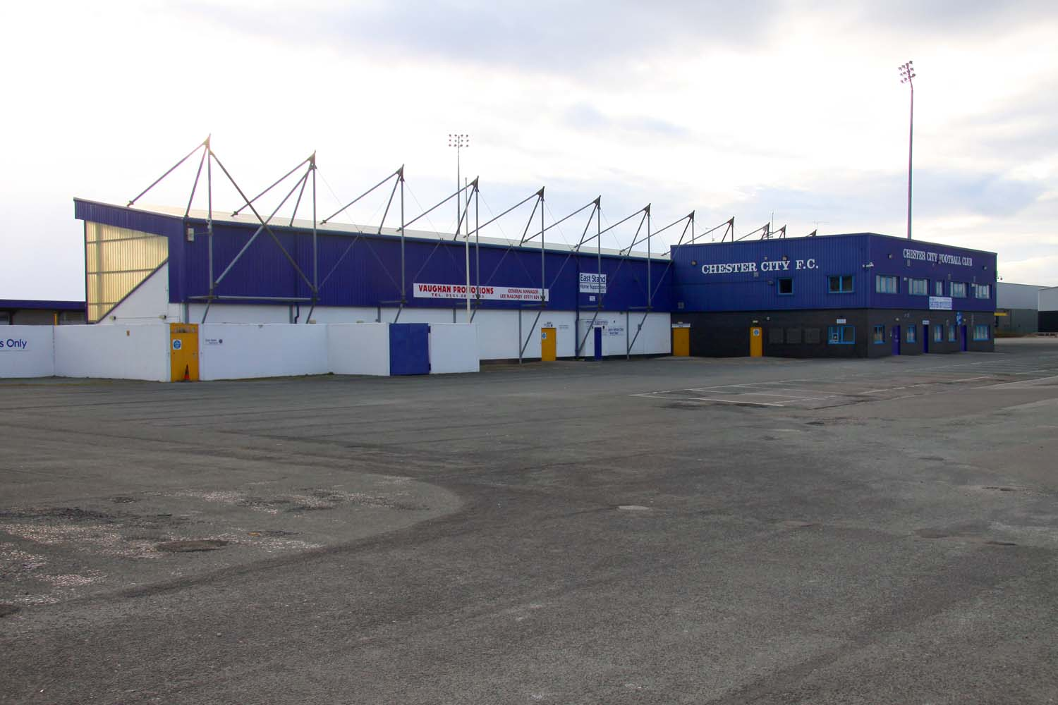 The Deva Stadium in Chester Chester City F.C. were wound up in the High Court in March 2010 by the Inland Revenue for failing to pay their tax bill. Fans are hoping to form a new club along the lines of AFC Wimbledon or AFC Telford to represent the city of Chester.